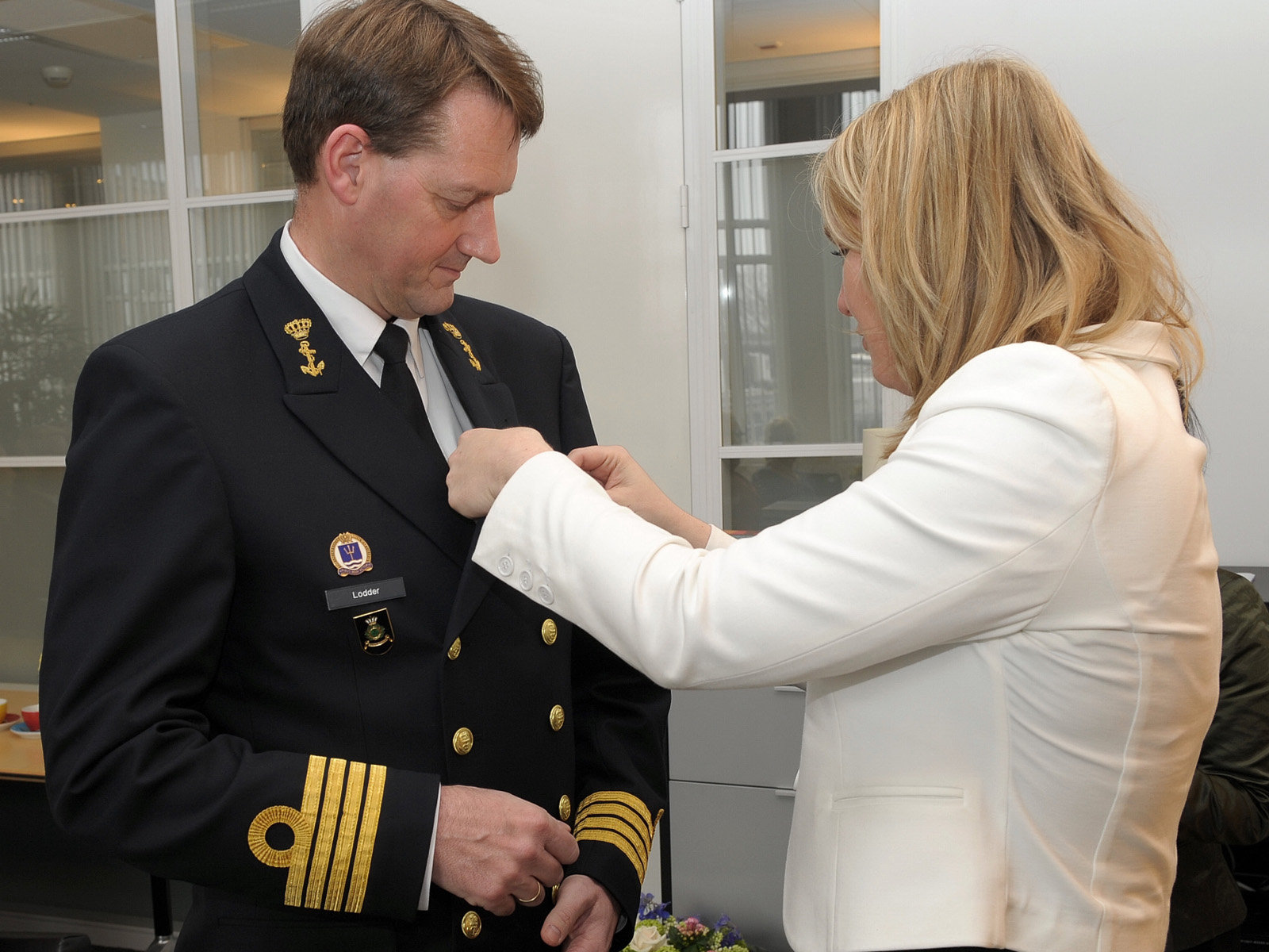 Captain Hans Lodder gets De Ruytermedaille for his actions against piracy as CO of HNLMS Tromp